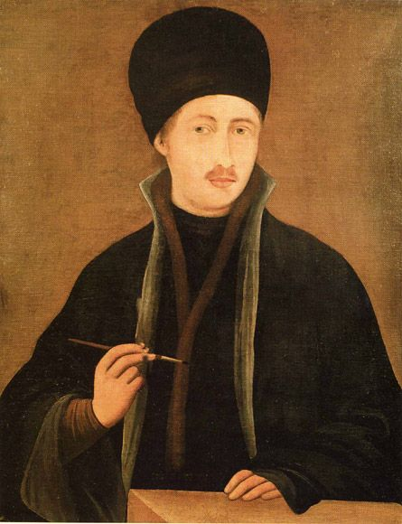 Zahari Zograf, Self-Portrait, National Gallery, Sofia